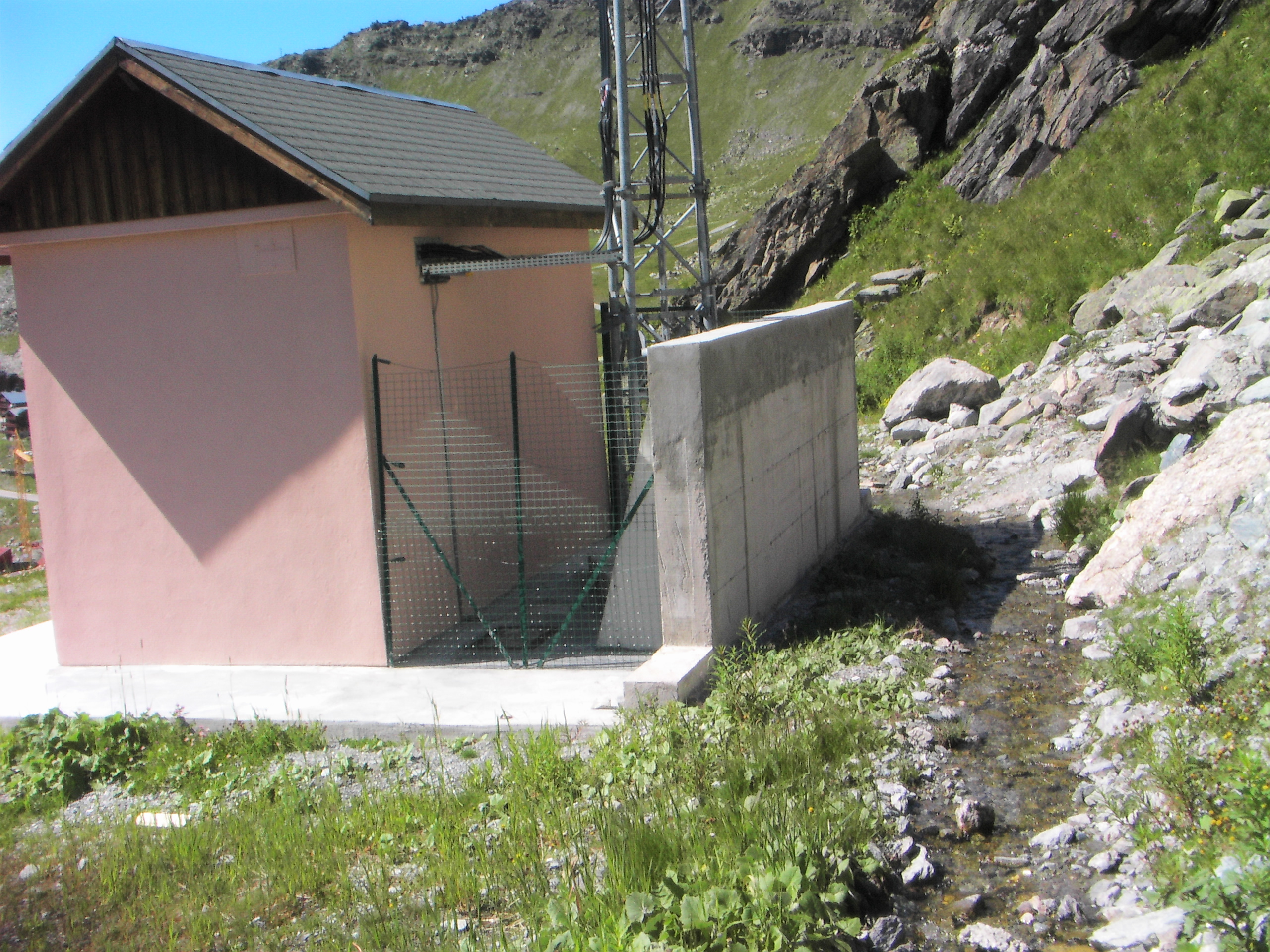 GSM base station of VAL THORENS VILLAGE in 2008. France.